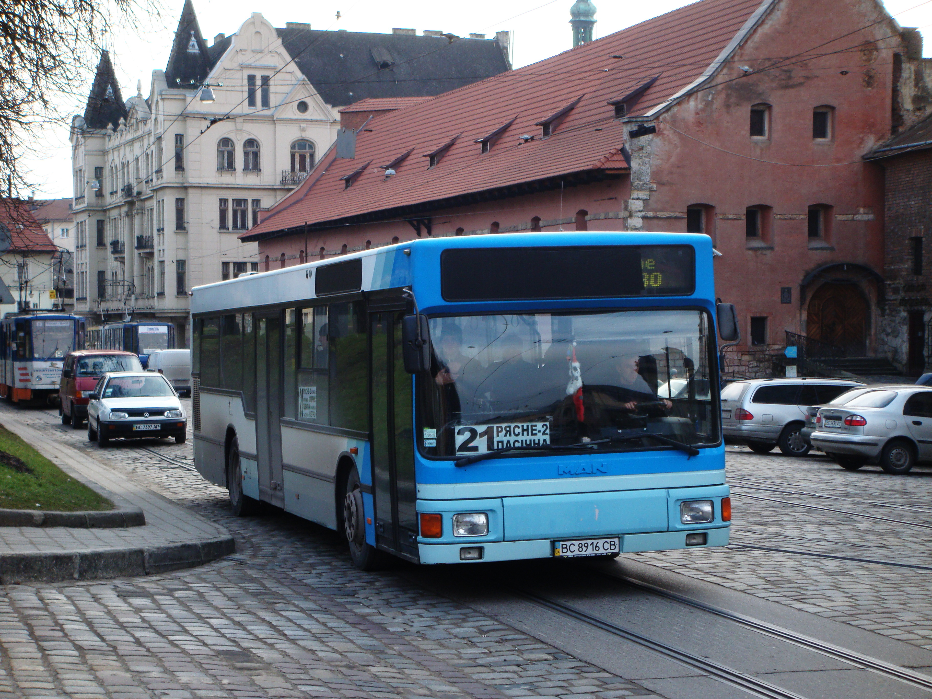 MAN NL 202 bus (ВС 8916 СВ) in Lviv, Ukraine. Ex MPK Kielce (Poland), bought in 2010. Built 1995, АТП-14630 from Львів operator.